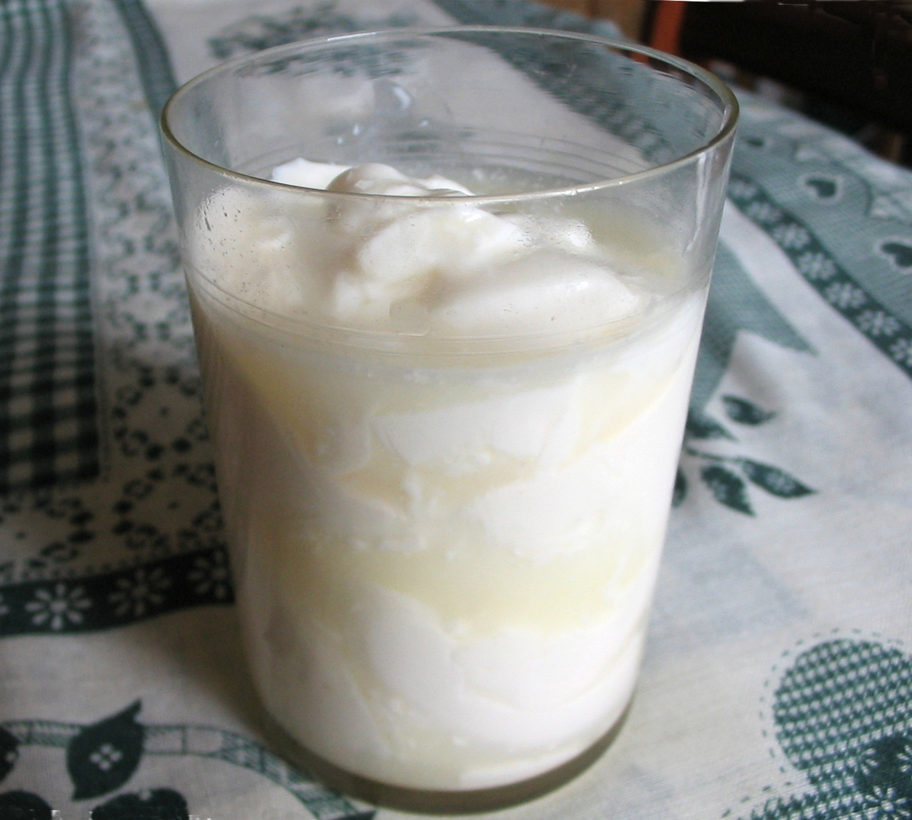 sour clotted milk